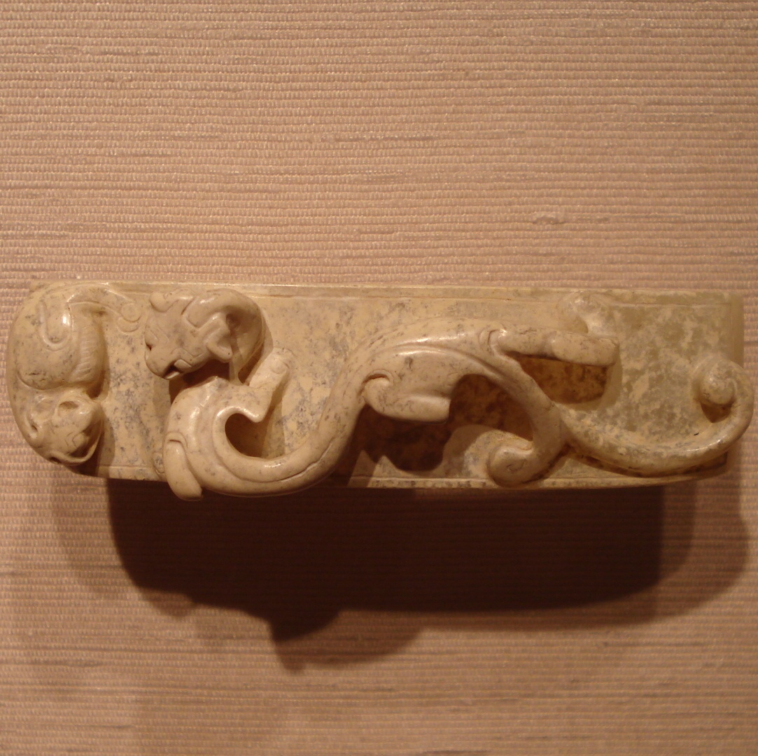 A Chinese jade scabbard slide from the Western Han Dynasty, dated 2nd to 1st century BC.